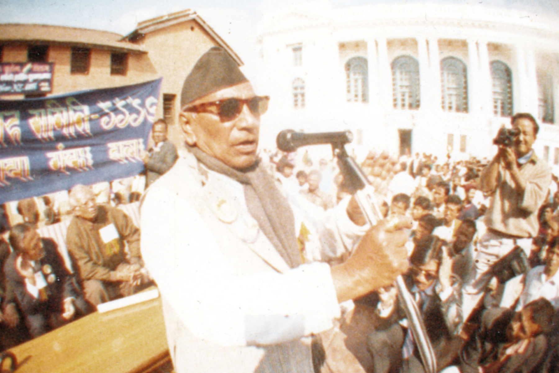 Nepalese democracy leader Ganesh Man Singh speaking at a function held to mark New Year's Day of Nepal Sambat 1114 in Kathmandu in 1993.